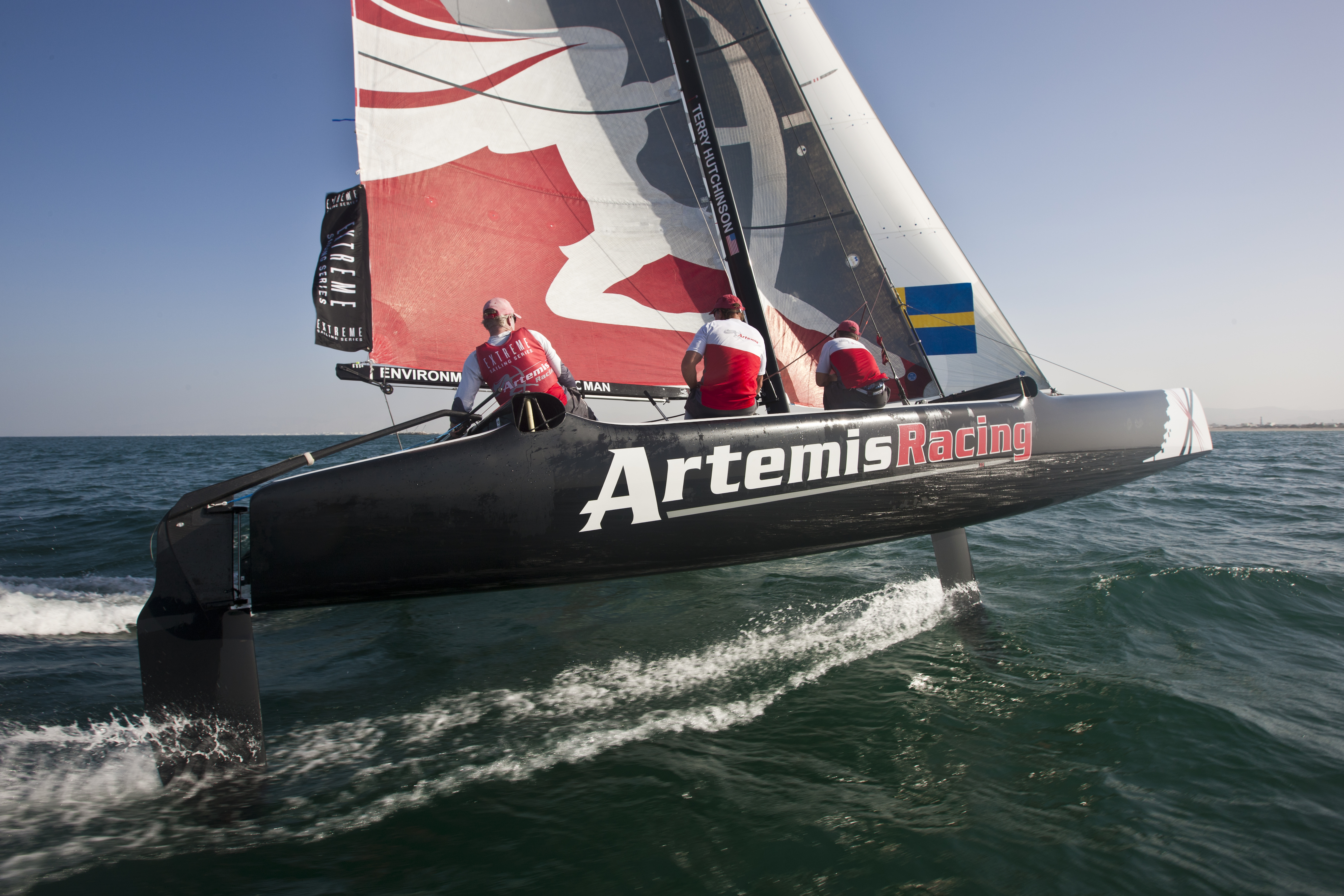 Practice day, 19th of February. Extreme Sailing Series, Act 1, Muscat, Oman (22 - 24 February 2011)